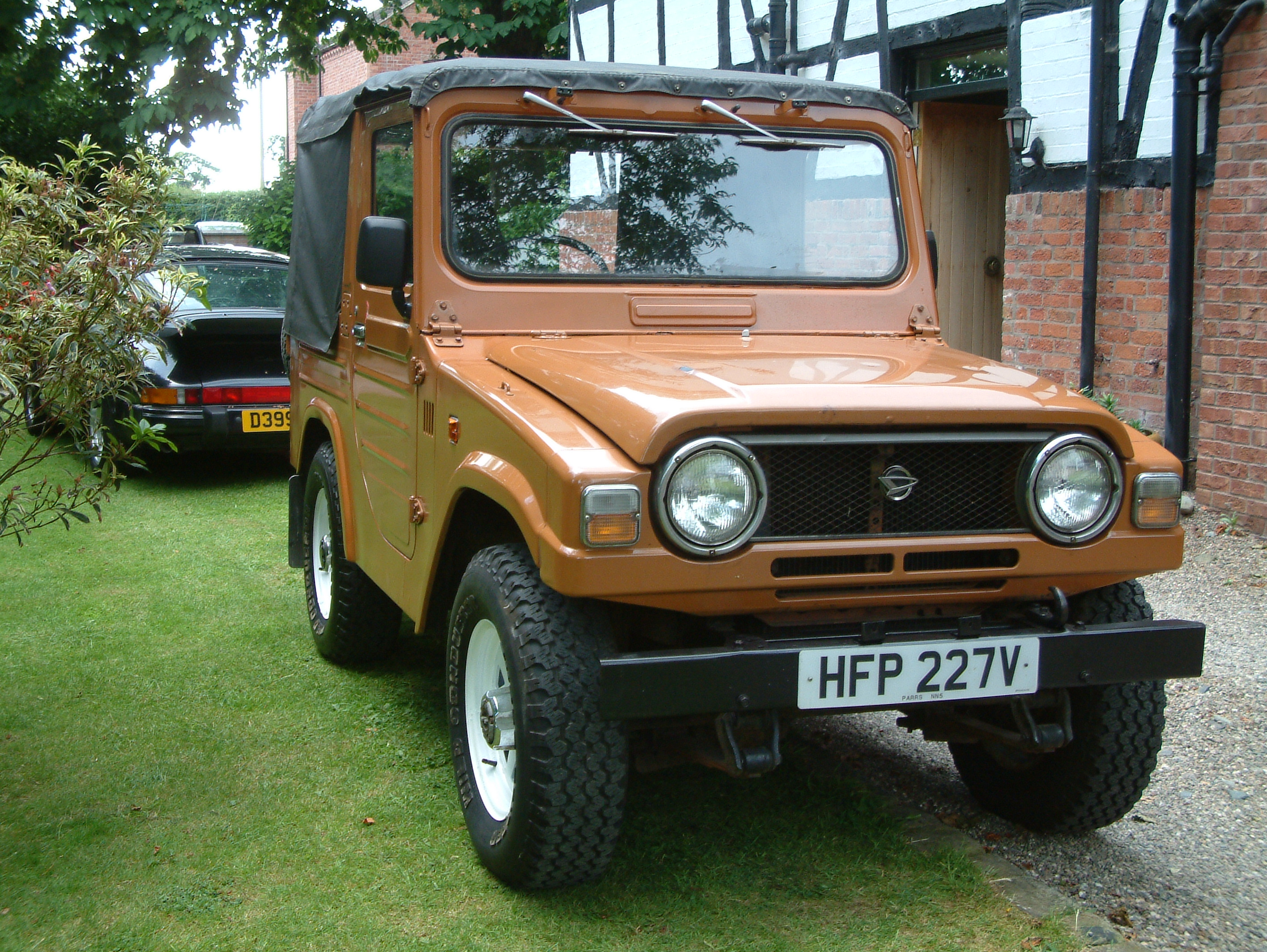 1979 Daihatsu Taft F50 2.5 Diesel - Coconut Brown.